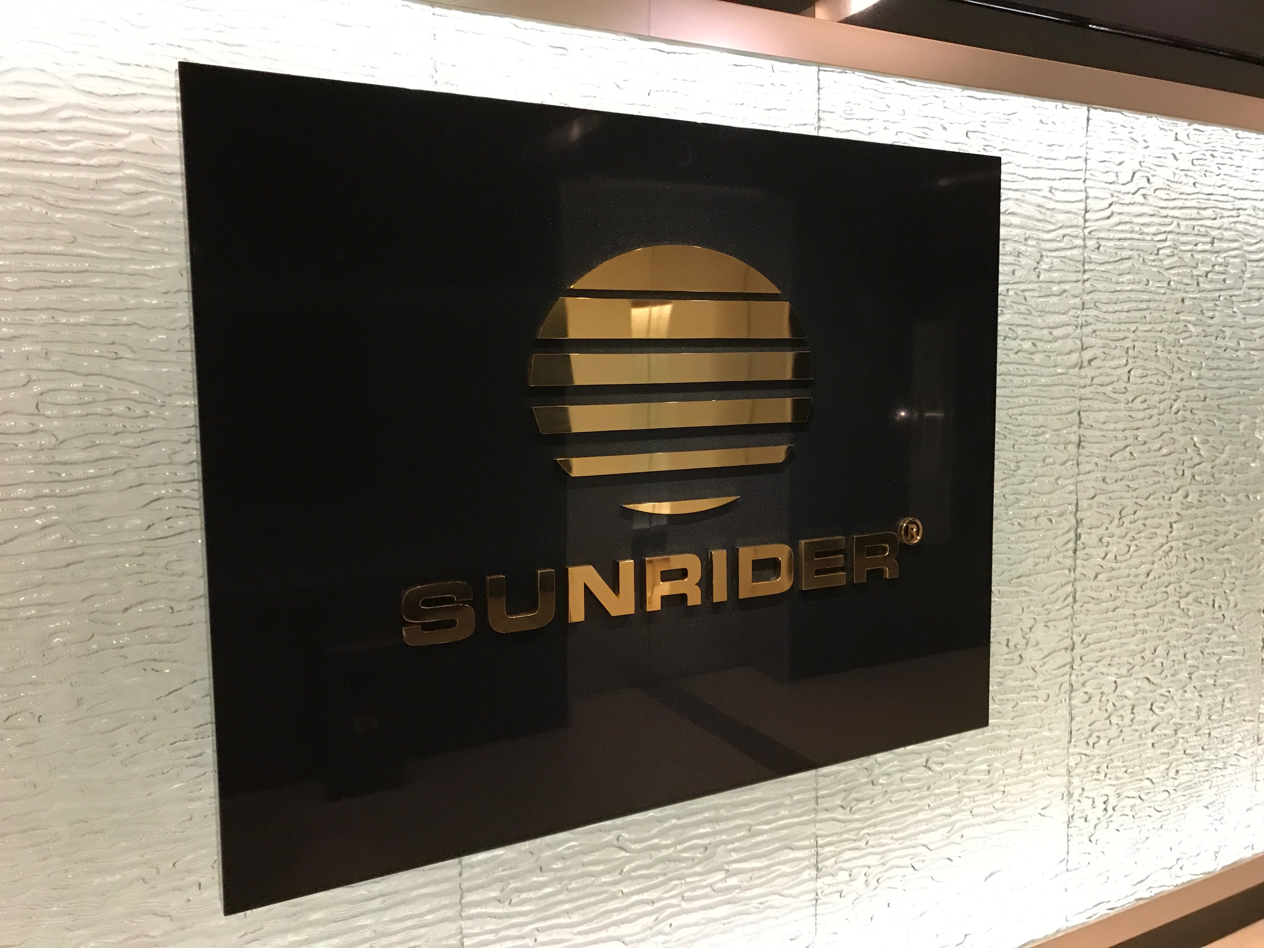 This is official logo of the company on the corporate wall.